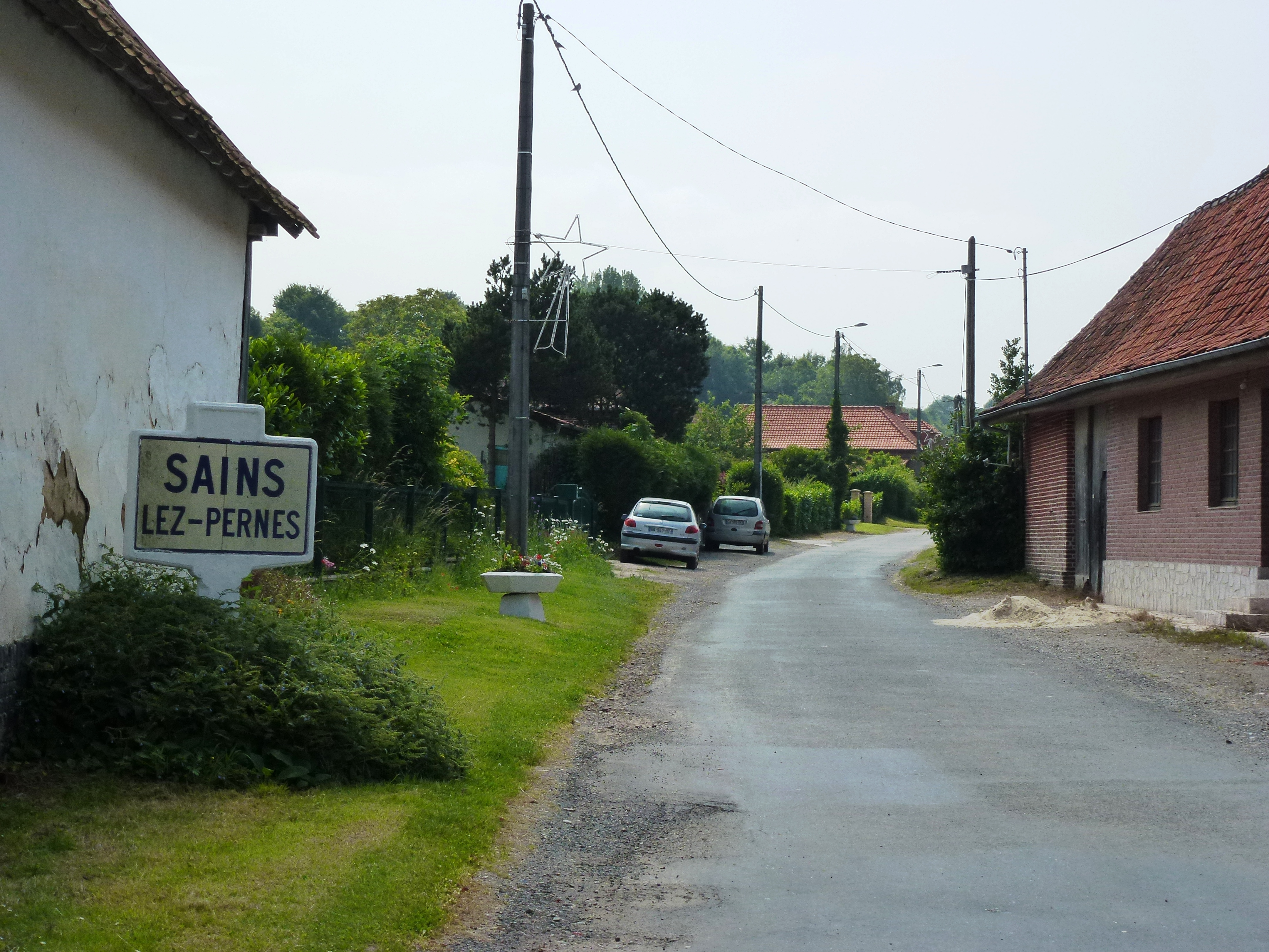 Sains-lès-Pernes (Pas-de-Calais, Fr) city limit sign